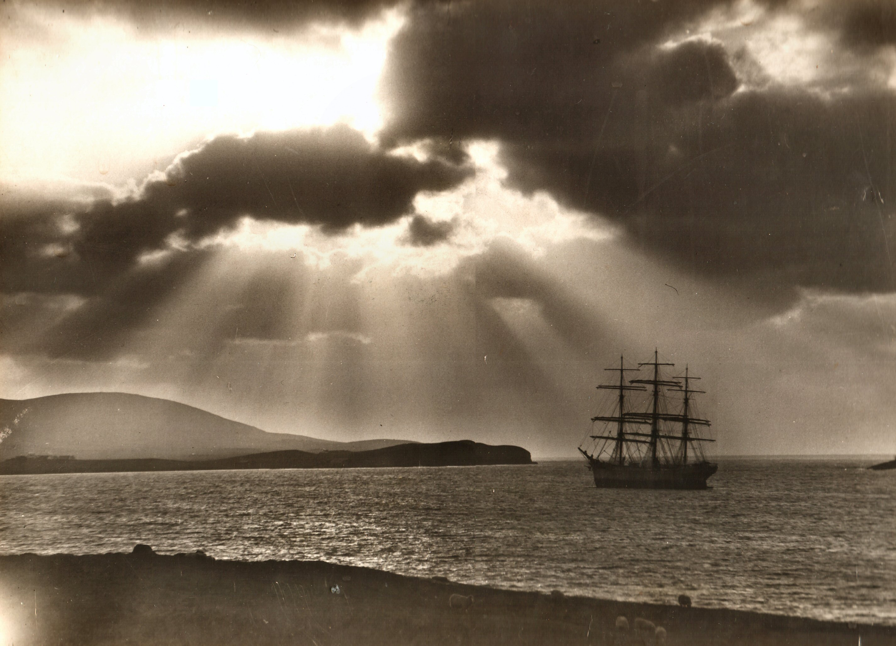 View of the Norwegian clipper Maella moored in Brei Wick, a bay just south of the town of Lerwick, Shetland Islands, taken circa 1922.[1]